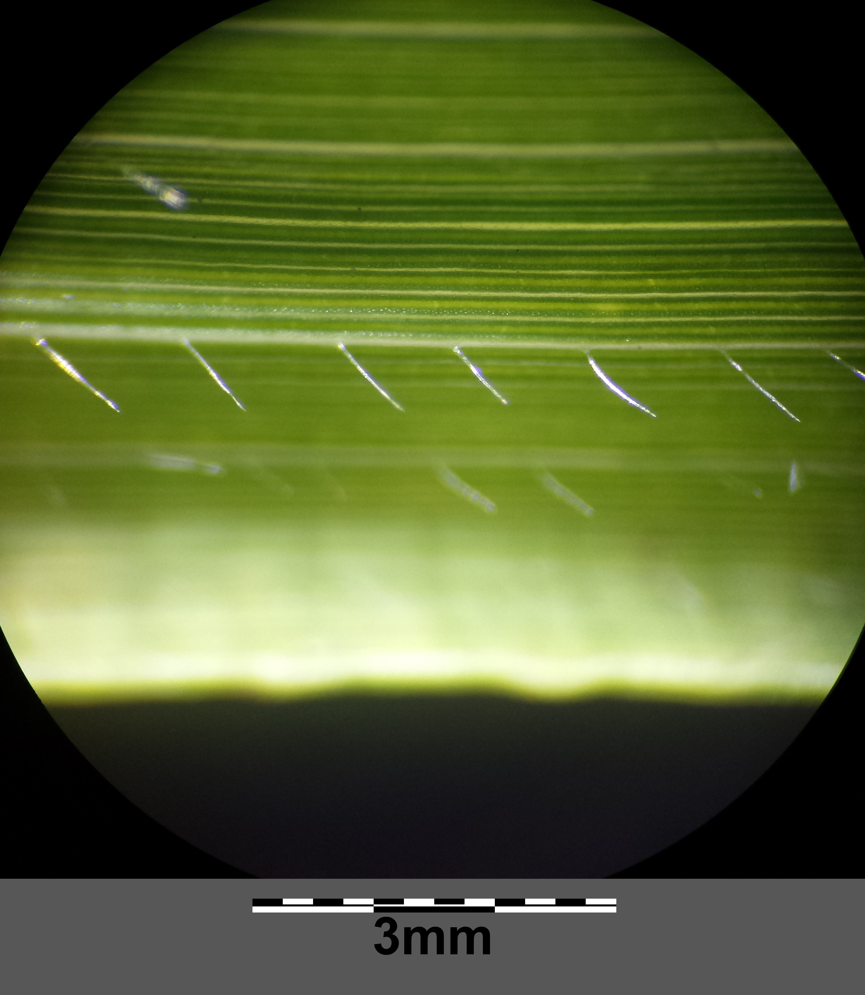 Sparsely hairy top side of leaf Taxonym: Brachypodium pinnatum ss Fischer et al. EfÖLS 2008 ISBN 978-3-85474-187-9 Location: Latschenberg near Altenmarkt im Thale, district Hollabrunn, Lower Austria - ca. 330 m a.s.l. Habitat: semi-dry grassland